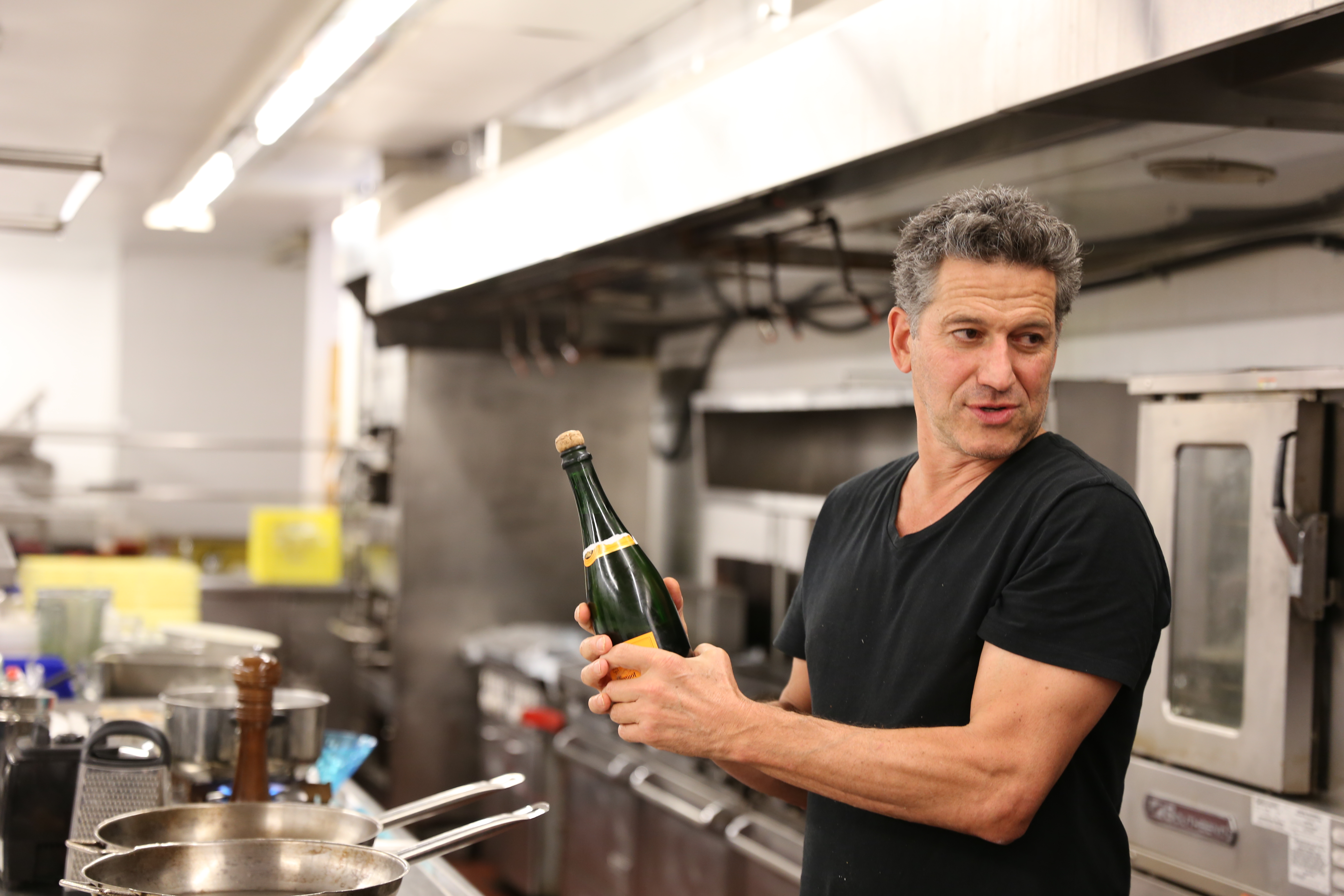 Bob Blumer - Christmas in November